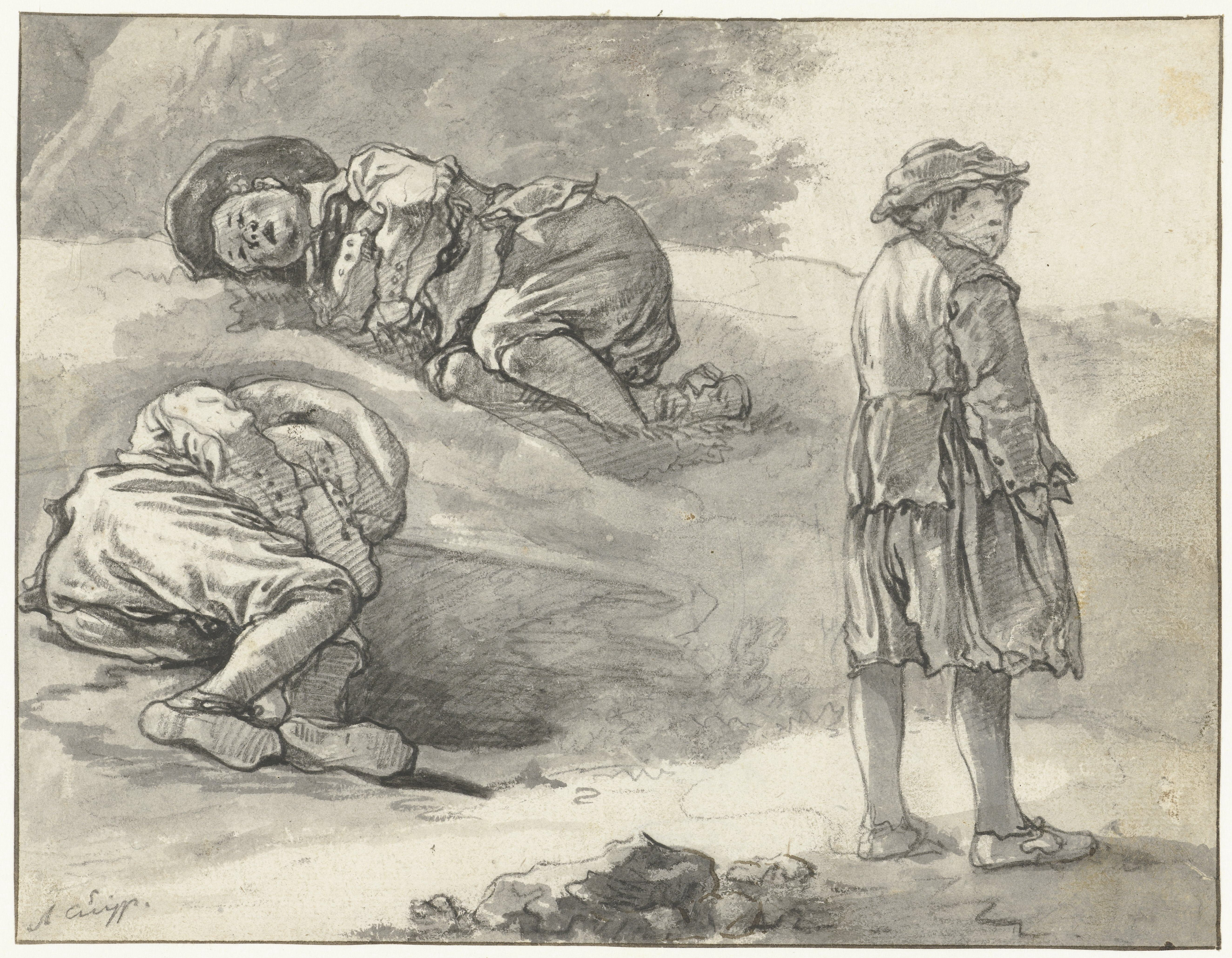 Drie studies van een herder